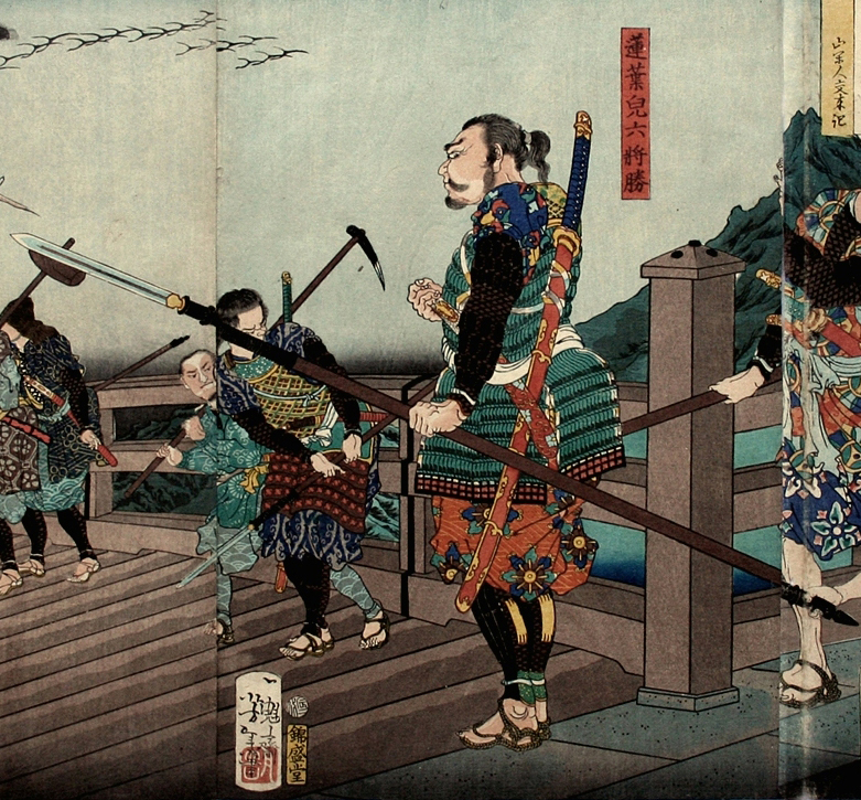 A Japanese woodblock print of Hiyoshimaru who meets Hachisuka Koroku on Yahabi bridge. Cropped and edited to show ōdachi hanging on his back.